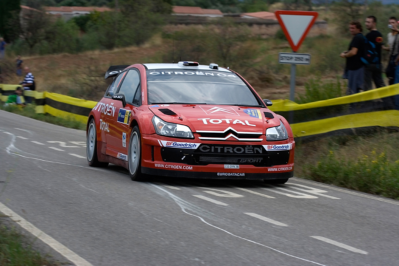 Sébastien Loeb driving his Citroën C4 WRC at the 2007 Rally Catalunya.